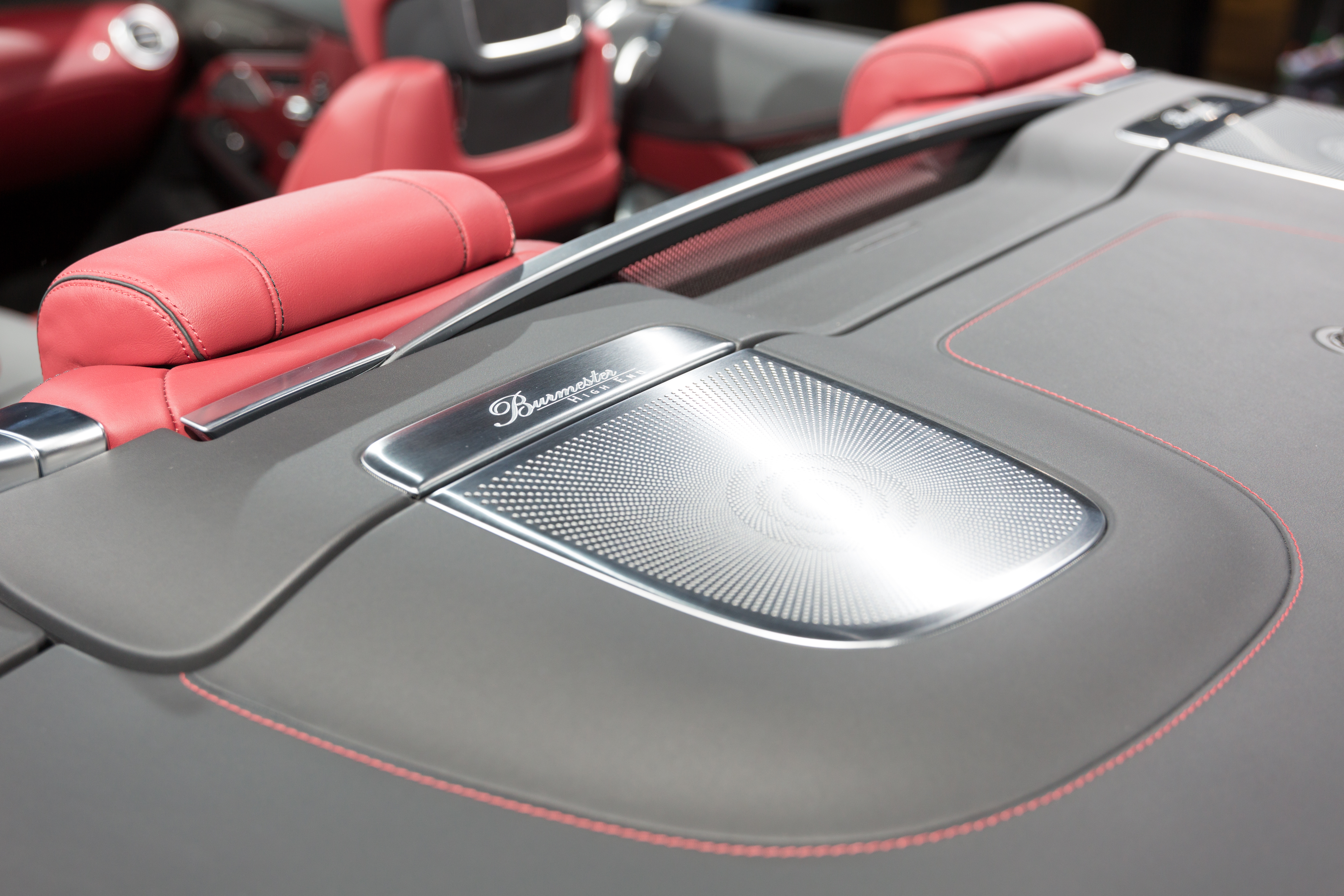 Mercedes-AMG S 63 4MATIC+ Convertible, IAA 2017